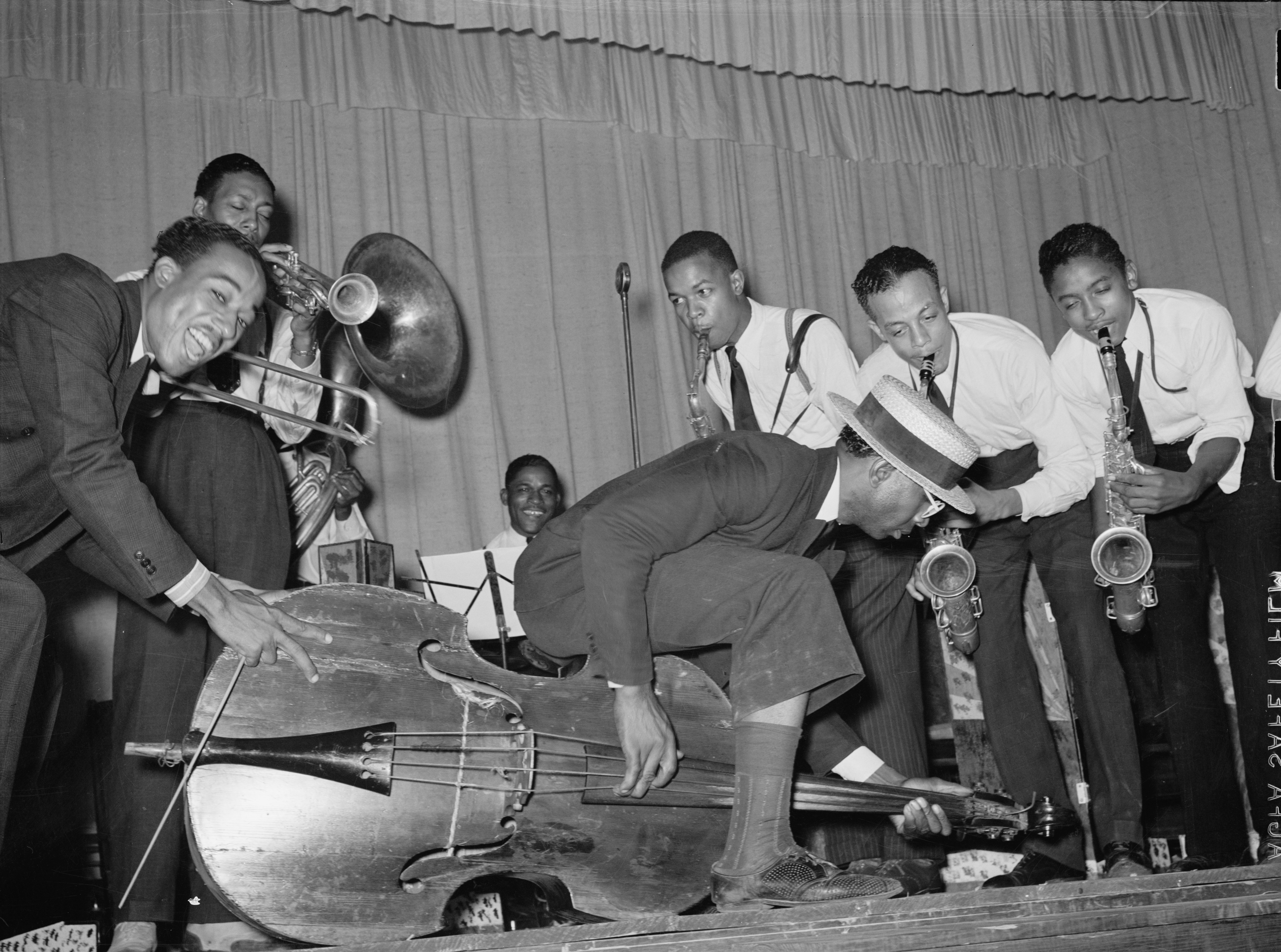 "Specialty number of orchestra at the National Rice Festival. Crowley, Louisiana." 1938